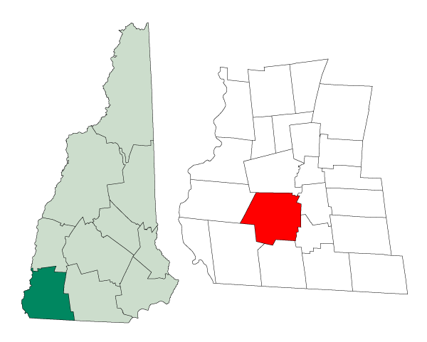 Map of a municipality in Cheshire County, New Hampshire